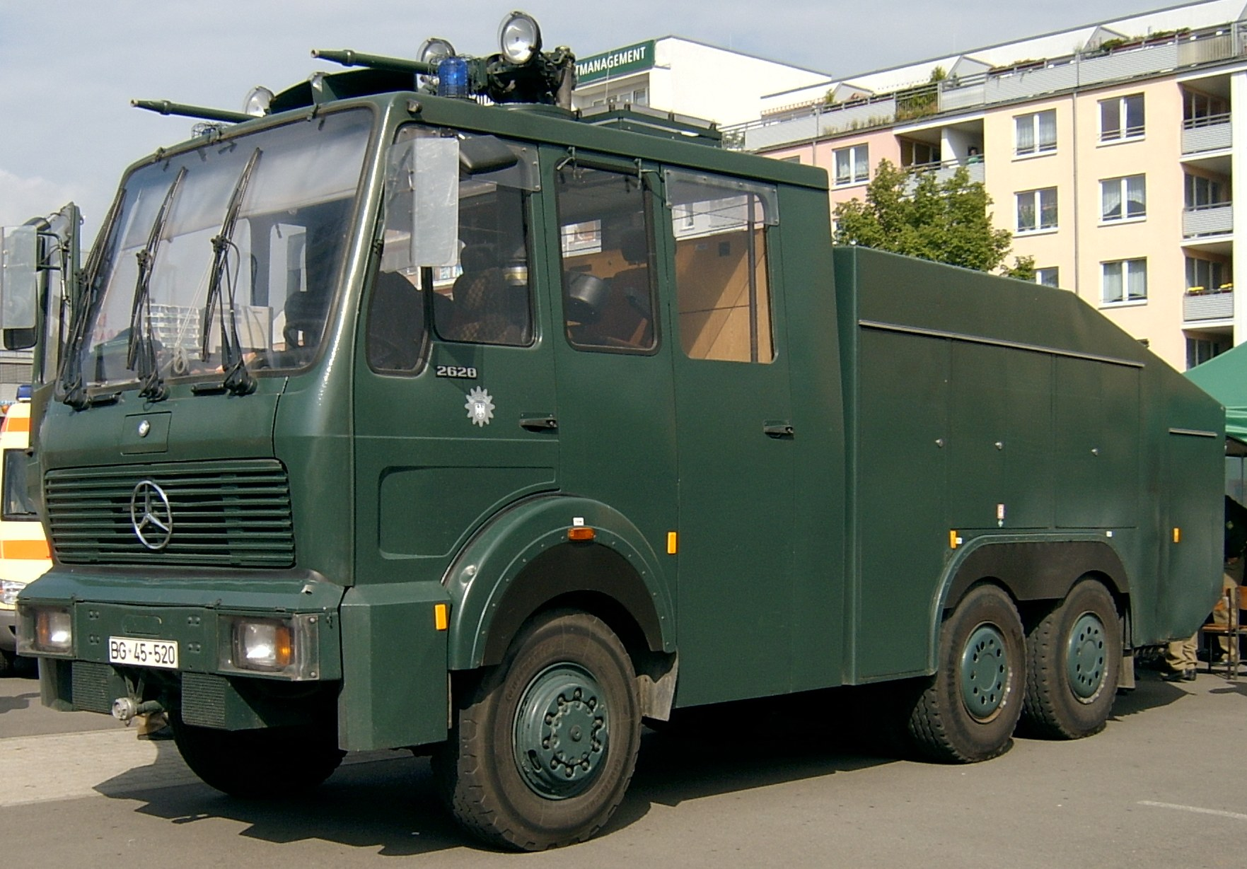 water cannon Mercedes-Benz NG 2628 WaWe 9000